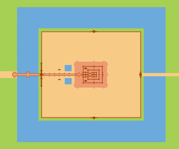 Angkor Wat plan. Angkor. Cambodia